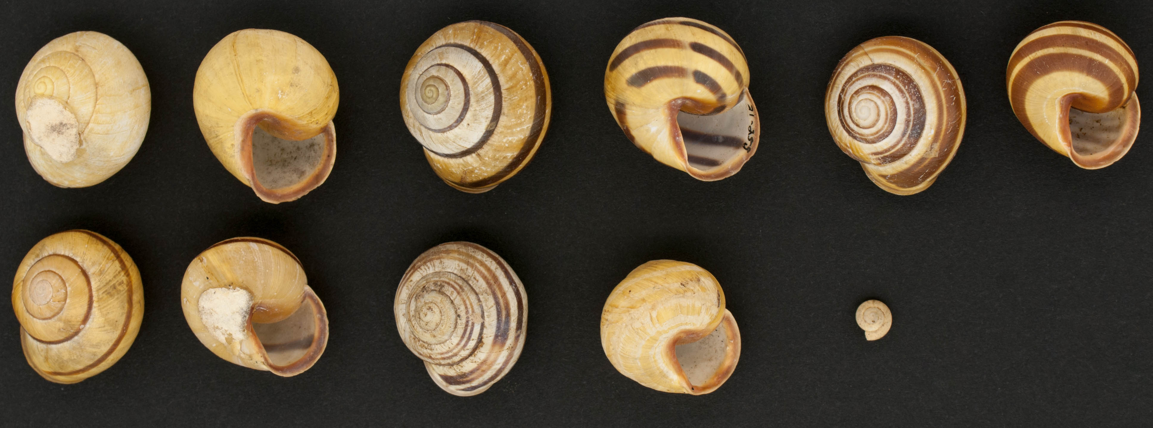 Eleven lenticular, terrestrial snail shells. Coloration ranges from light to dark tan. A representative shell has five whorls. All shells are ornamented with very fine growth lines and all, but the smallest have one to five color bands of brown or gray. The shells are dextral with oval-shaped apertures and thin brown lips. Photo by Jay Loy as part of the Historic Southern Naturalists Project at the University of South Carolina's McKissick Museum.